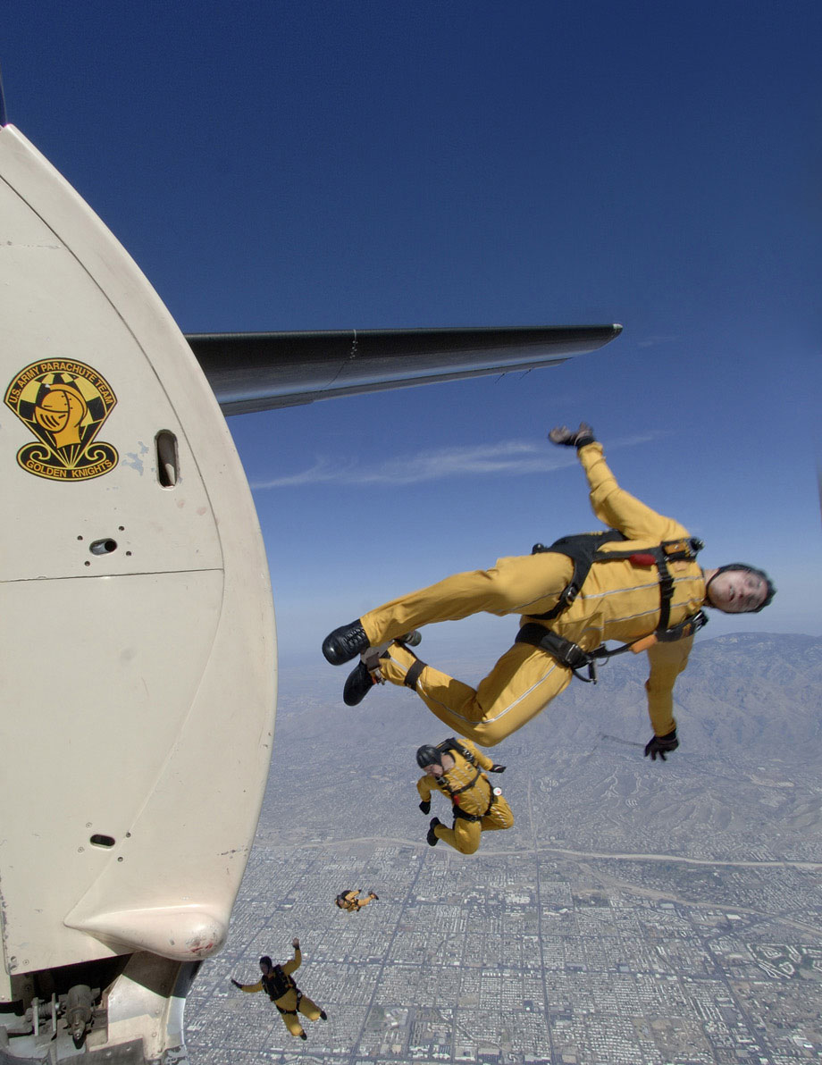 Soldiers from the U.S. Army Golden Knights Parachute Team jump out of an aircraft during the opening ceremony for the 2007 Aerospace and Arizona Days air show on Davis-Monthan Air Force Base in Tucson, Ariz., March 17, 2007. The air show allows the general public to see military and civilian aerial demonstrations and static-display aircraft. DoD photo by Senior Airman Christina D. Ponte, U.S. Air Force.